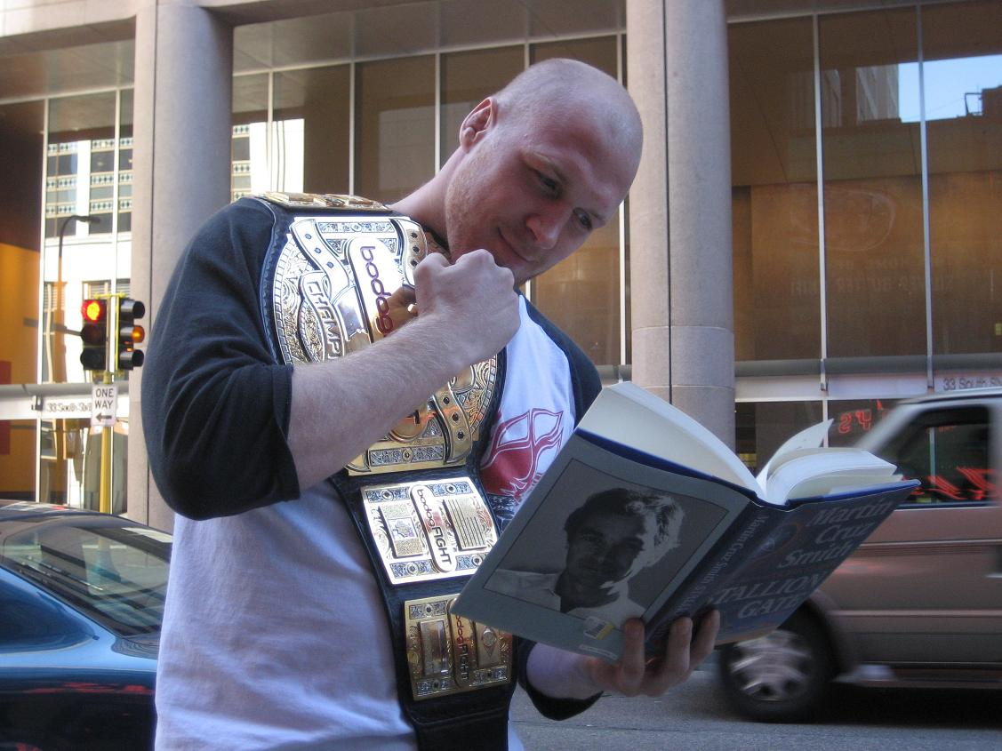 Nick Thompson. This was taken with Nick's permission by Joh02639 using the own digital camera, and he is happy to have it added to his Wikipedia page. It is Joh02639's photo, and no one has any rights to it.